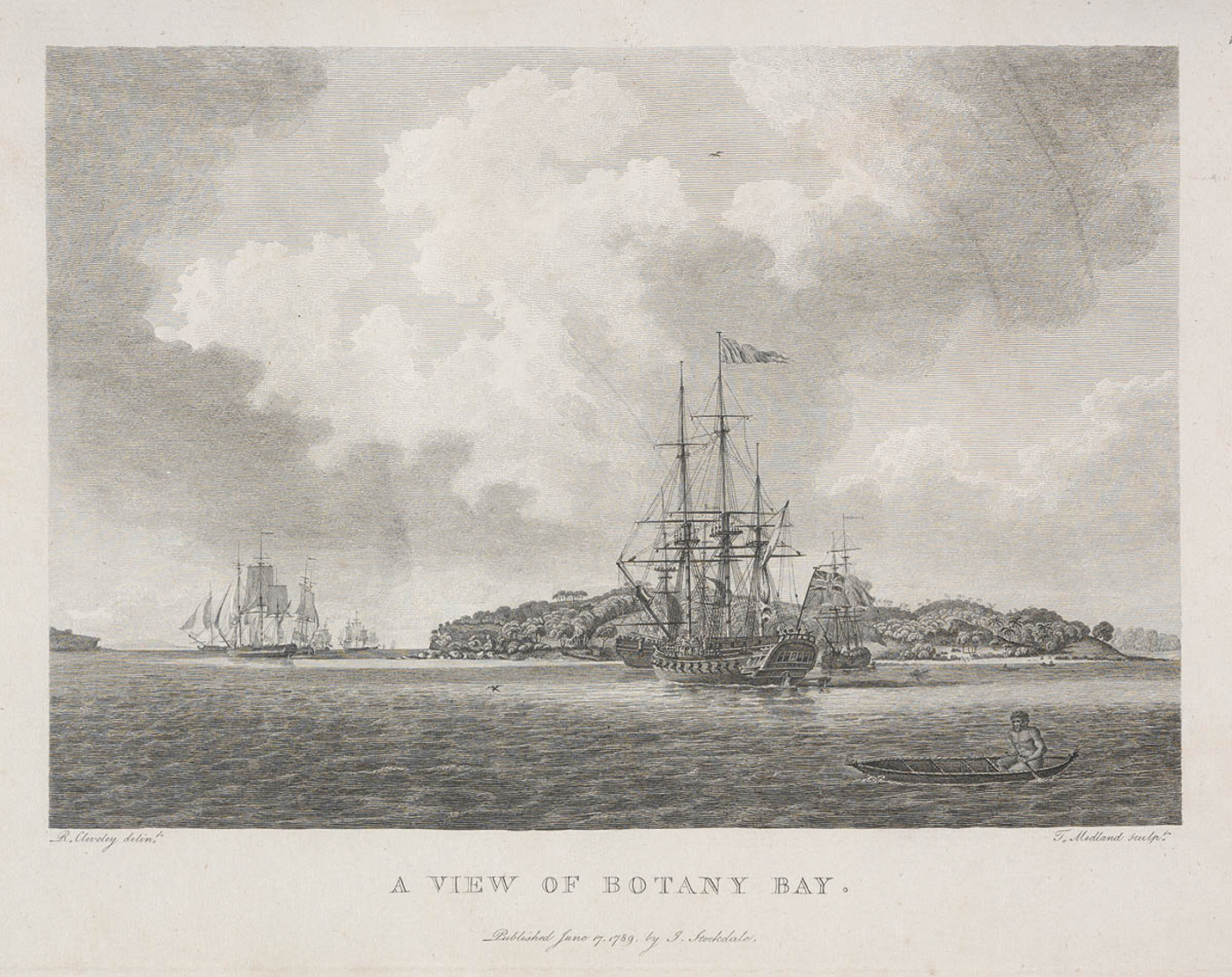 Engraving depicting First Fleet arriving at Botany Bay in January 1788, with Indigenous Australians in canoes witnessing the arrival. Bare Island is in the background. From The voyage of Governor Phillip to Botany Bay : with an account of the establishment of the colonies of Port Jackson & Norfolk Island by Arthur Phillip. Original drawing by R. Cleveley, engraving by T. Medland.